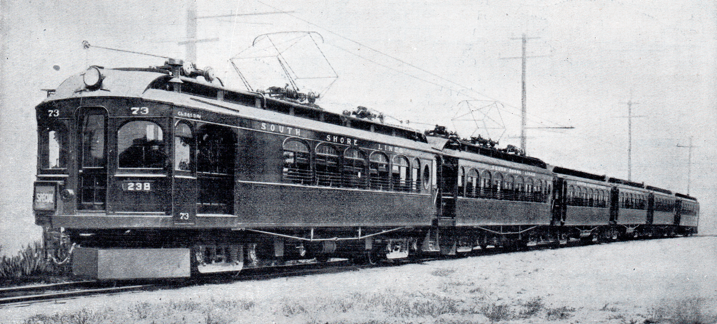 Caption: Limited train on the Chicago, Lake Shore & South Bend single-phase railway passing through the sand dunes at the foot of Lake Michigan